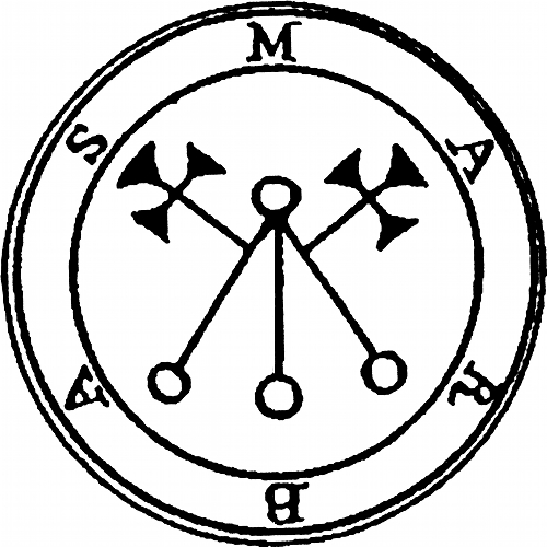 Seal of Marbas